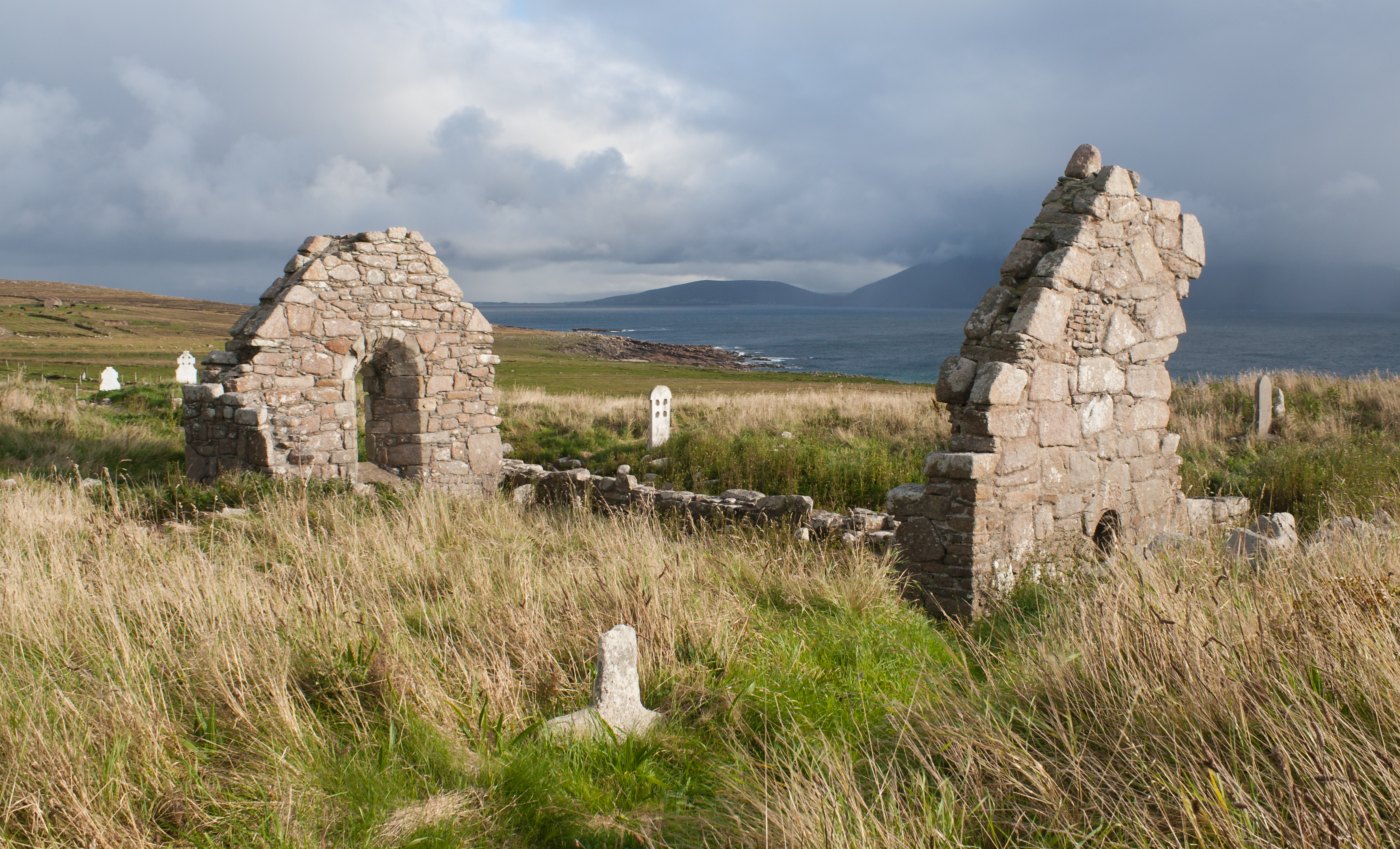 North-west view of Teampall Deirbhile (St. Dervla's Church) in the evening sun with the Blacksod Bay and Achill Island in the background.